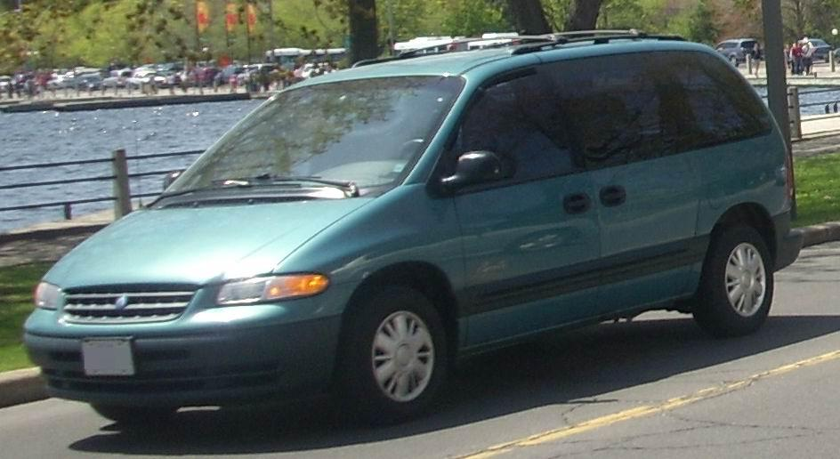 1997-2000 Plymouth Grand Voyager photographed at the 2008 Ottawa Tulip Festival.